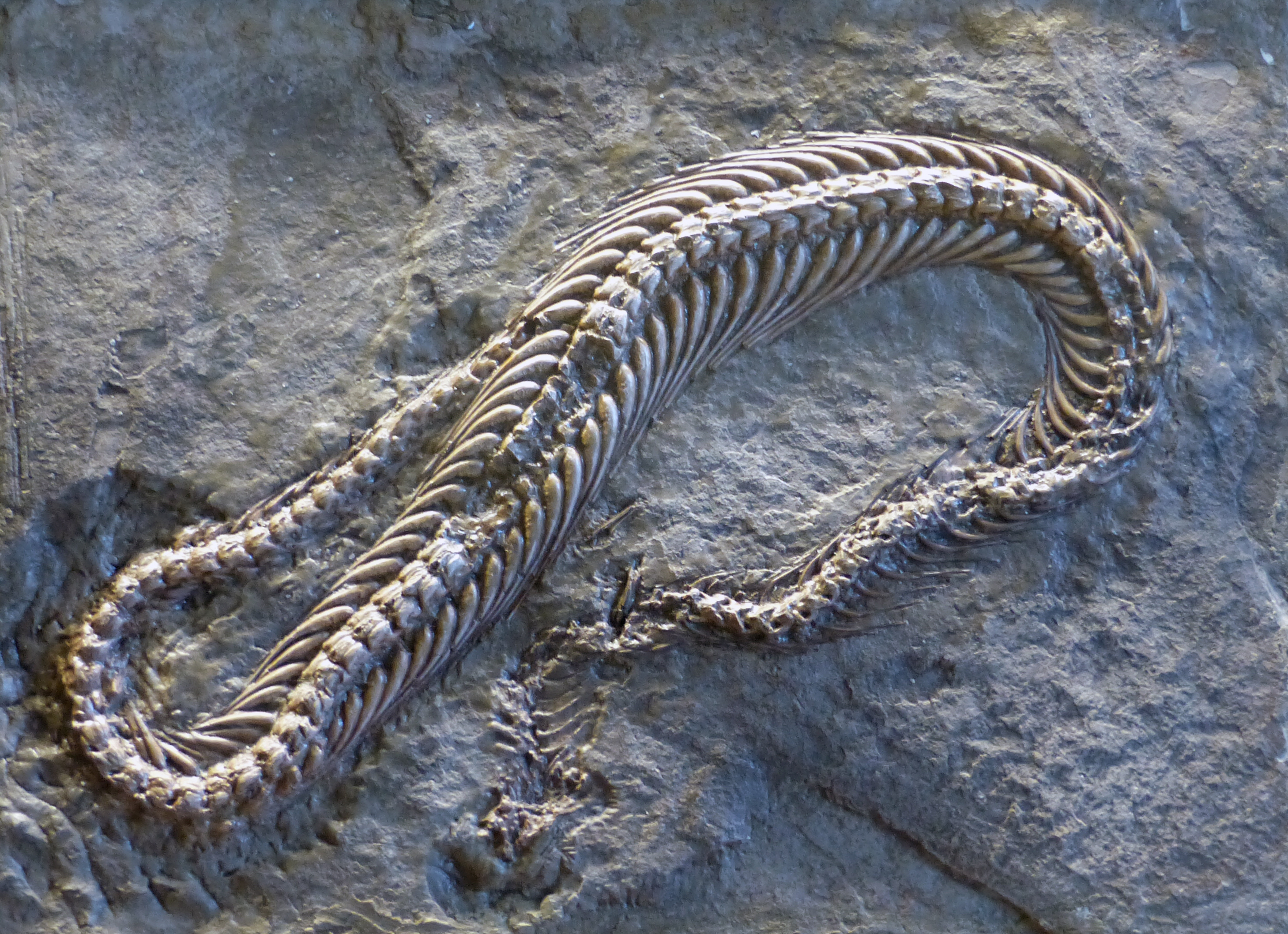 Pachyophis woodwardi NOPCSA 1923, a sea snake from the early Late Cretaceous and thus one of the geologically oldest known snakes, Natural History Museum Vienna